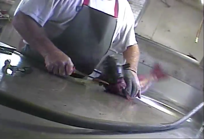 Hidden camera footage secretly shot at a Texas fish slaughter facility revealed shocking cruelty, including workers cutting, slicing, skinning, suffocating and dismembering live and fully conscious catfish – an excruciatingly painful practice harshly condemned by veterinarians. It is now widely accepted that fish feel pain. In fact, fish process pain in much the same way as mammals. In the U.S. each year, approximately 8.4 billion fish are killed for food. According to the U.S. Department of Agriculture, more than 80% of farm-raised fish are catfish, with Texas as a leading producer. MFA contacted all 181 Texas House and Senate members to address the abuse by introducing new legislation to specifically prohibit "skinning and dismembering of all live, conscious animals" during the 2011 legislative session.